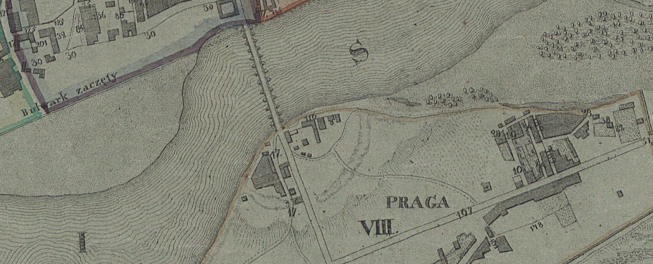 Olszowa Street on the plan of the town of Warsaw, 1827